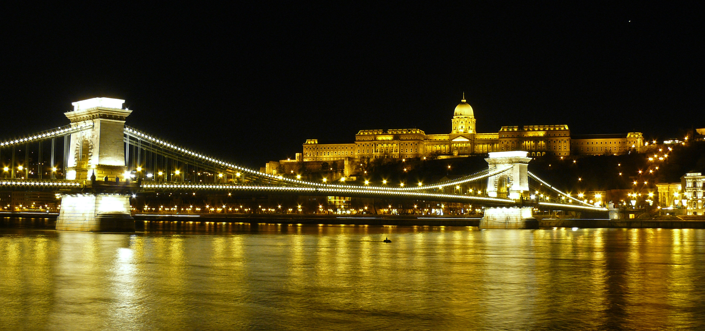 View of Buda Castle from the opposite bank of the Danube. In the foreground is the Chain-bridge.